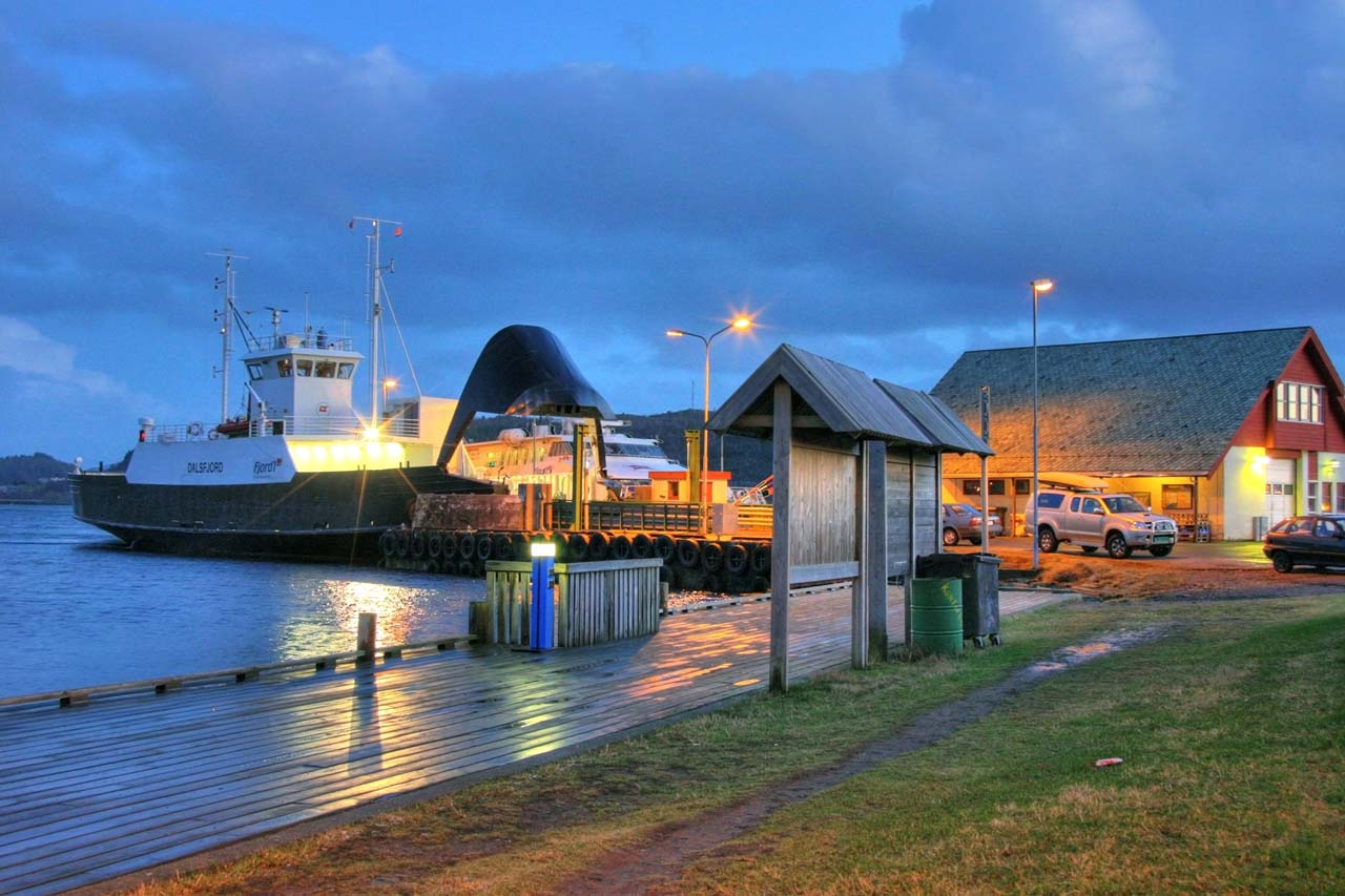 ferry MF «Dalsfjord» at quay in Askvoll Canon EOS 10D HDR Photomatix